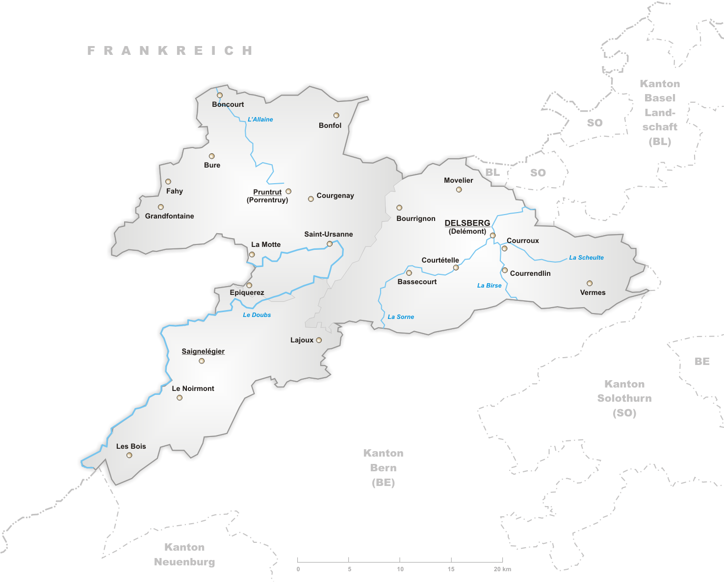 Canton of Jura